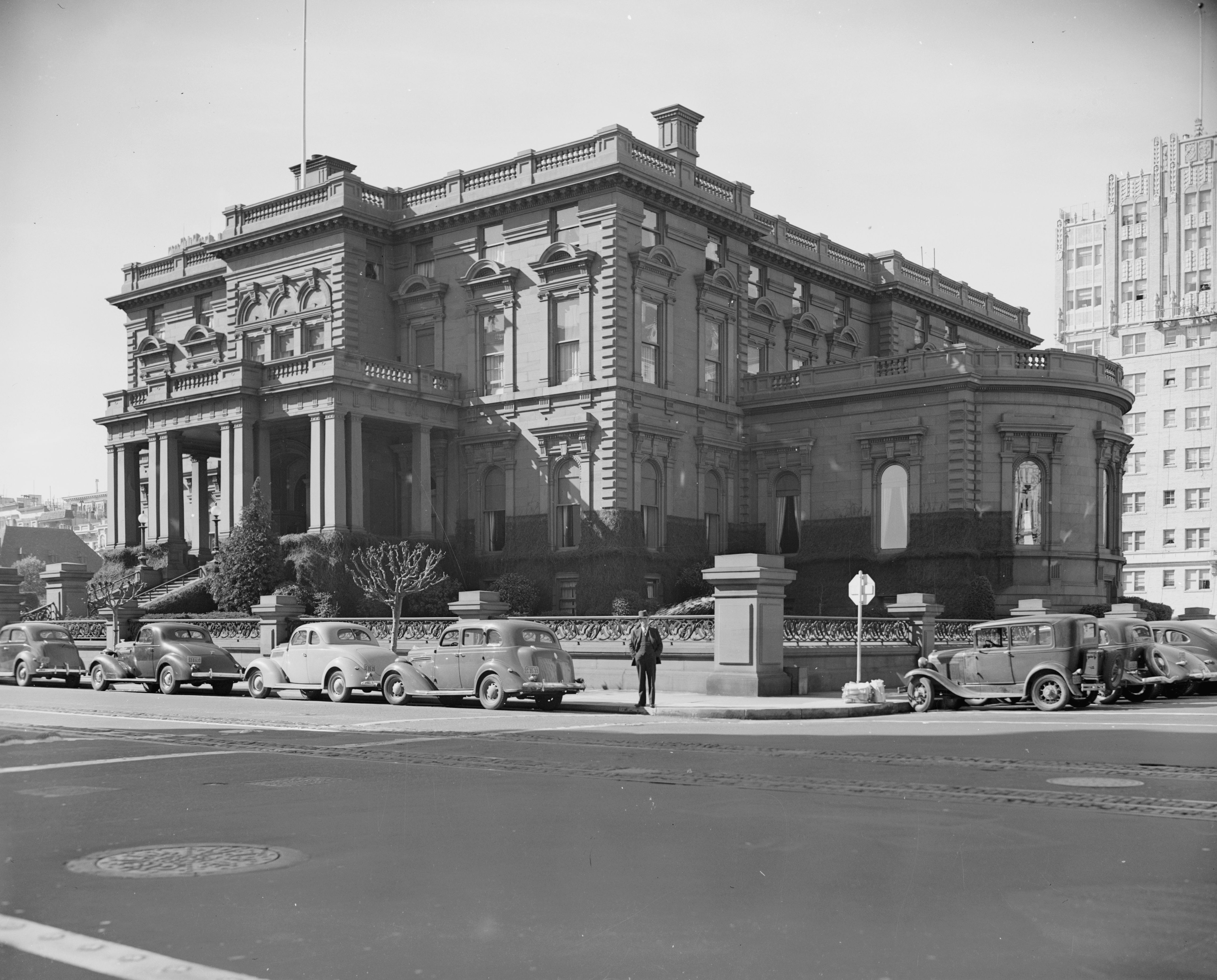 National Register of Historic Places in San Francisco, California. James Clair Flood Mansion, 1000 California Street, San Francisco, San Francisco County, CA.